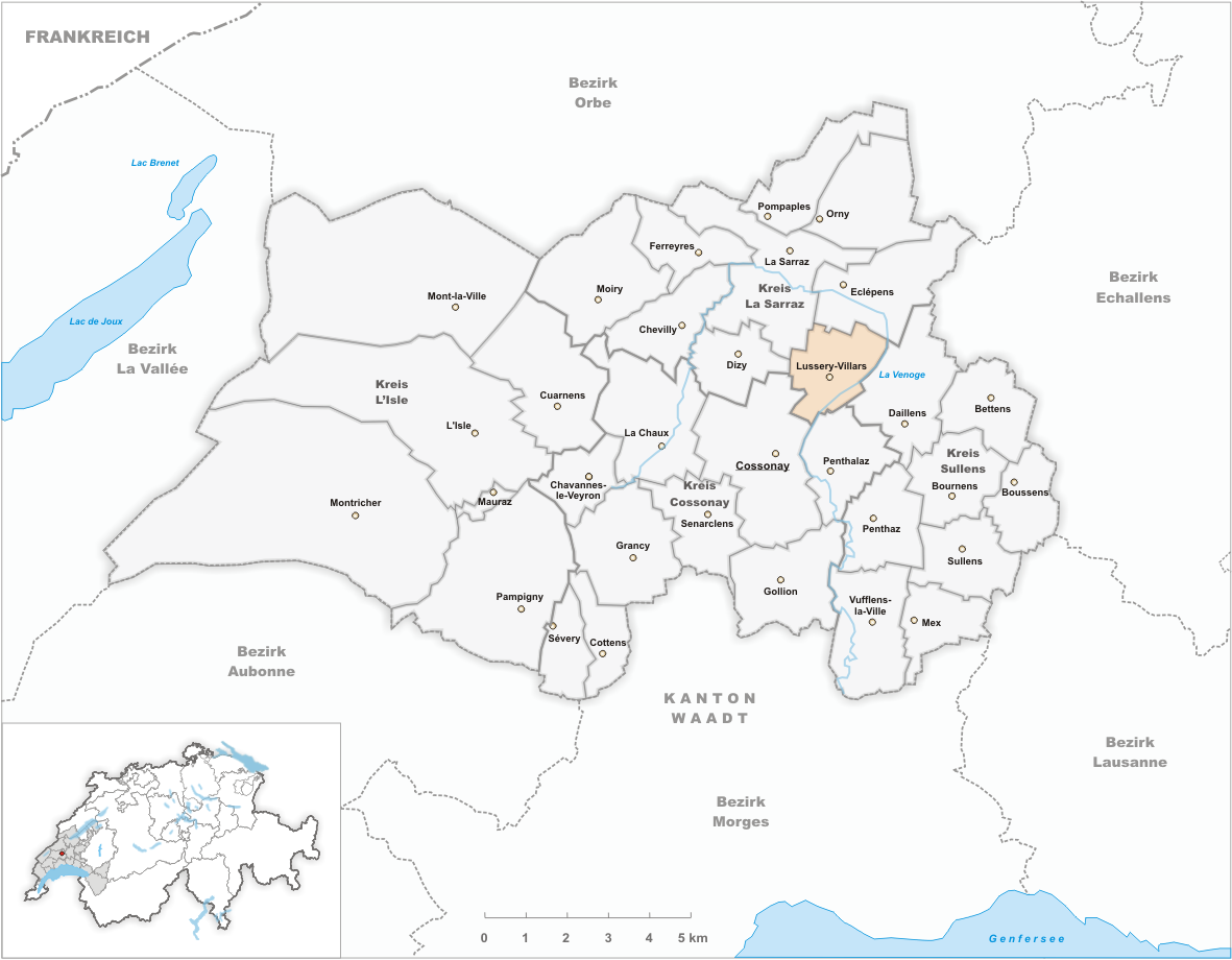 Municipality Lussery-Villars